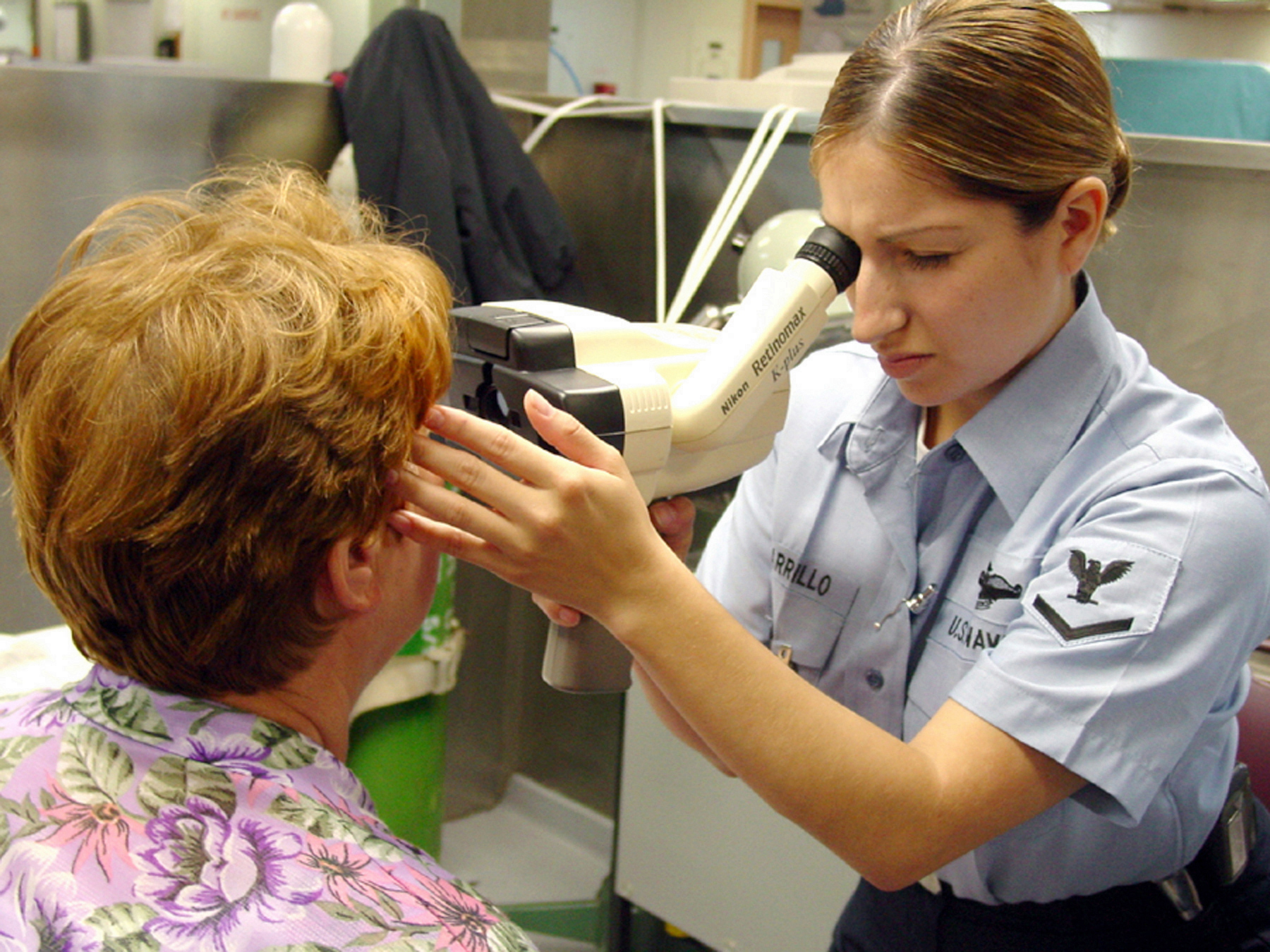 At sea aboard the Military Sealift Command hospital ship USNS Comfort (T-AH 20) Jul. 25, 2002 -- A Navy Corpsman examines a patient during a three-day clinic held in Tallinn, Estonia. Comfort deployed to the Baltic region in support of the NATO joint training exercise Medical Central Europe 2002 (MEDCEUR 02). U.S. Navy photo by Journalist 2nd Class Ellen Maurer. (RELEASED)